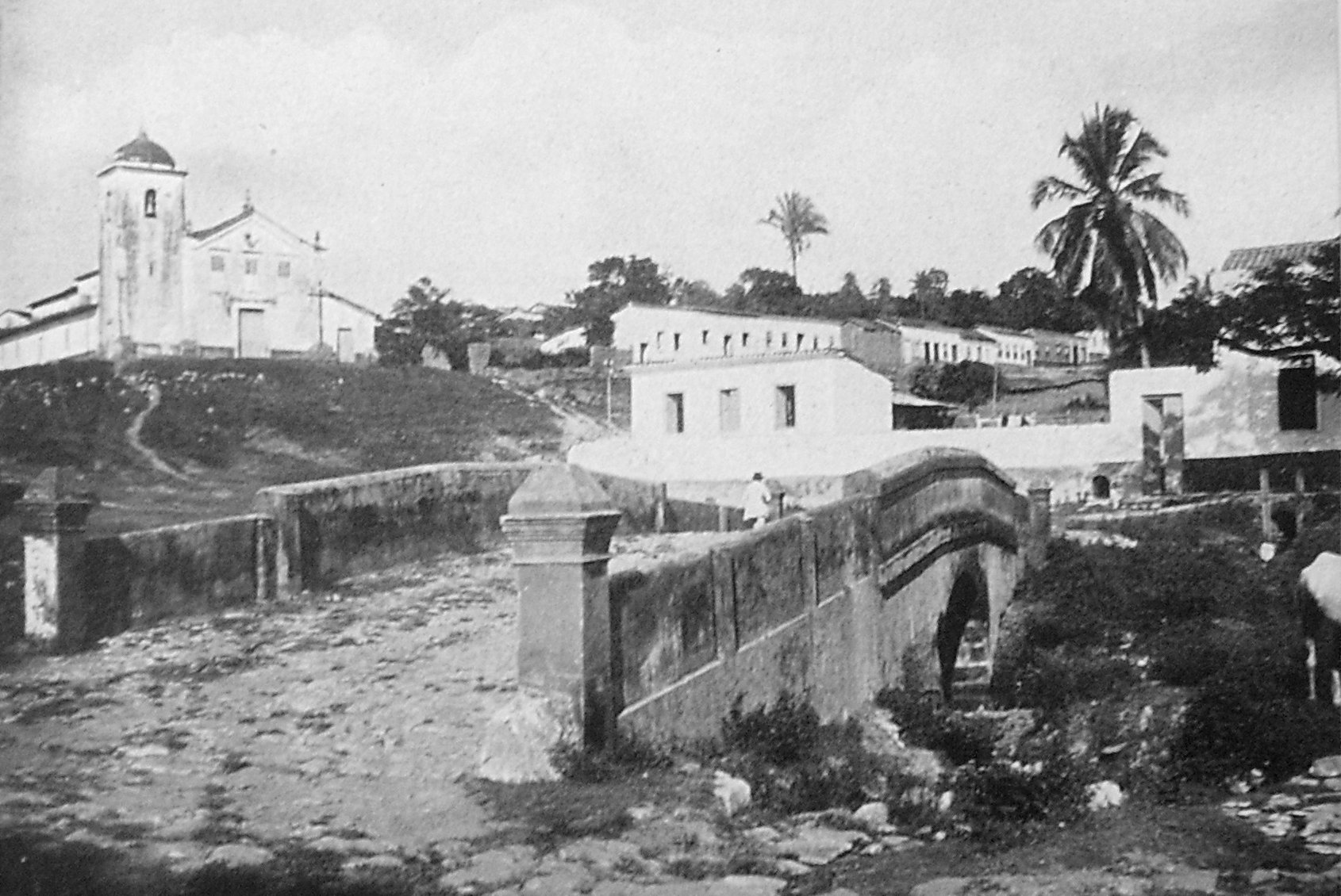 Church of Our Lady of the Rosary and Saint Benedict, in the 1910s, Cuiabá, Mato Grosso, Brazil.